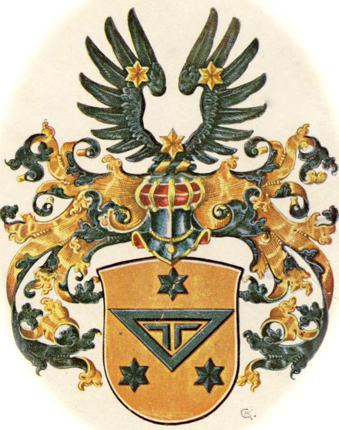 Family crest Winckel